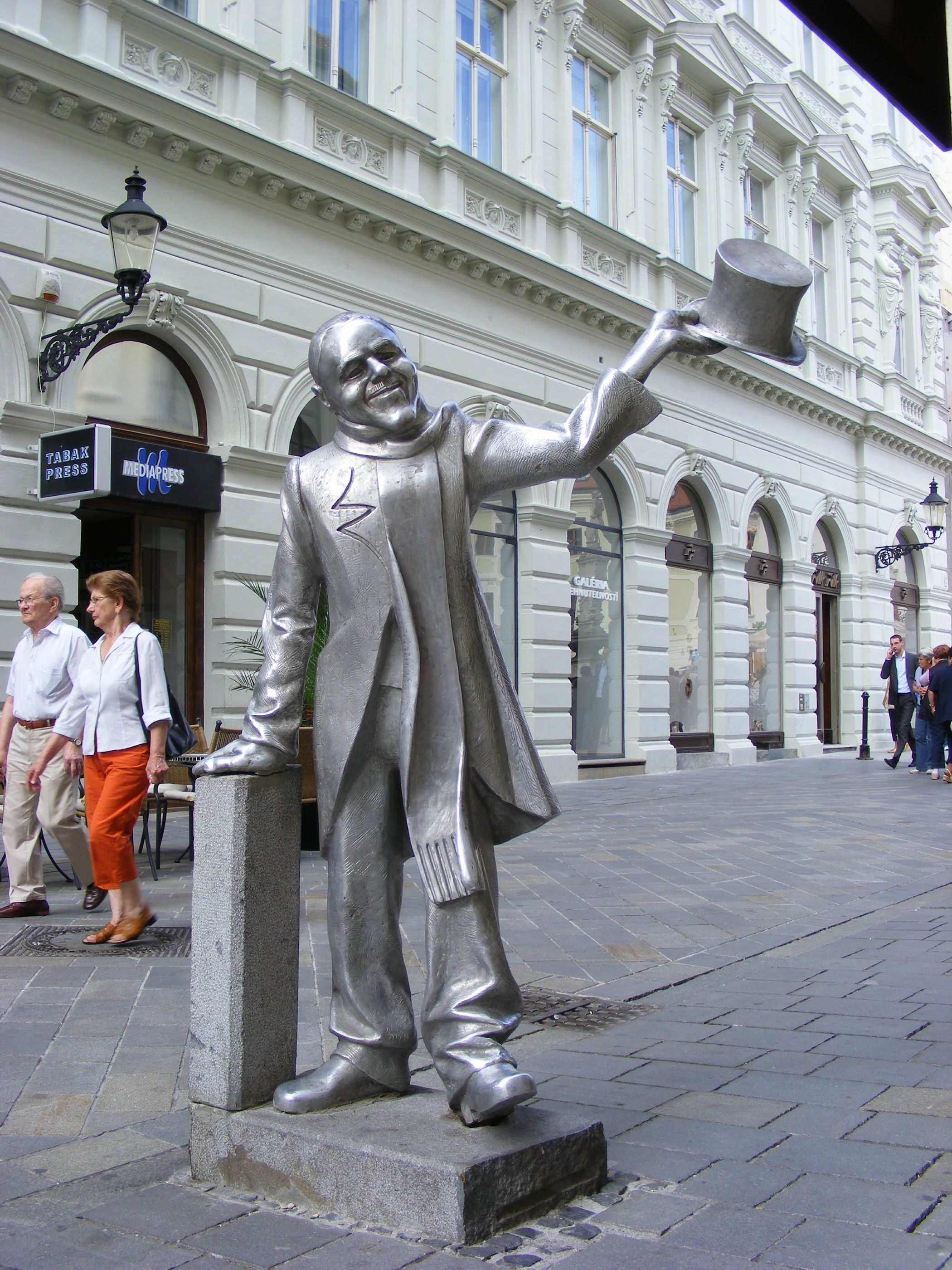 Statue of schoener naci, Bratislava